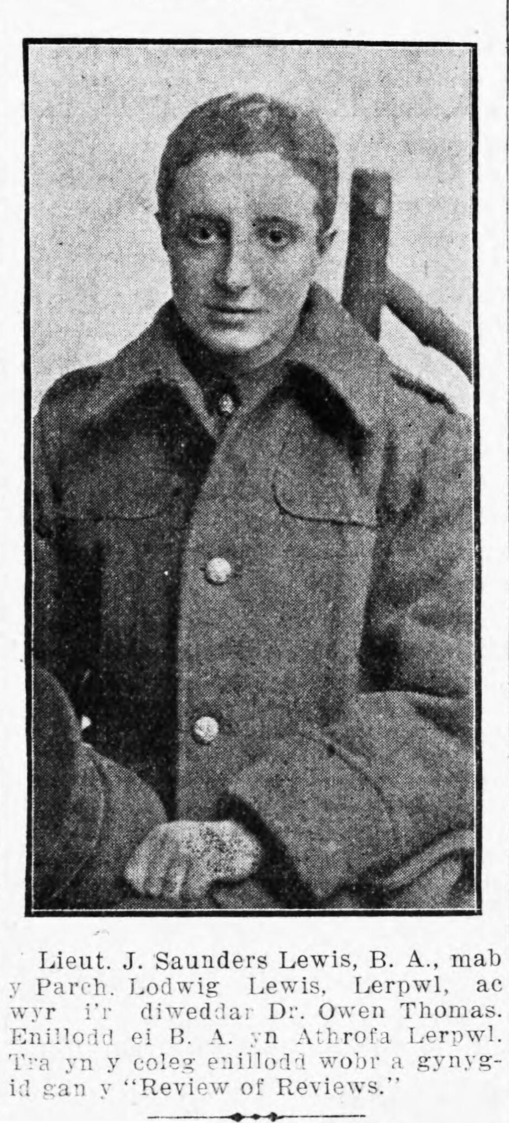 Saunders Lewis, poet, dramatist and activist